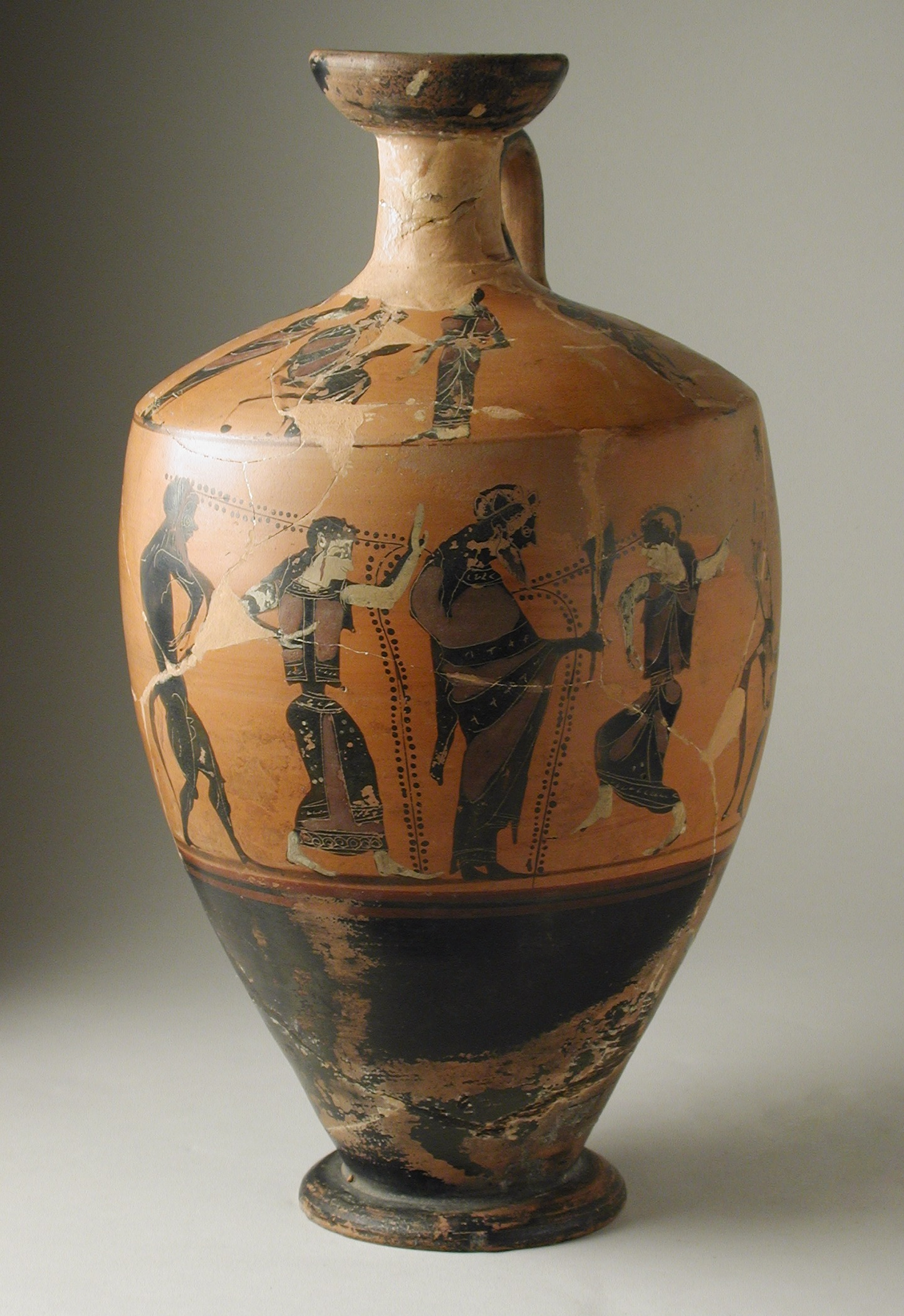 Greece, Athens, circa 540 B.C. Furnishings; Serviceware Ceramic Height: 11 in. (27.94 cm) William Randolph Hearst Collection (50.9.43) Greek, Roman and Etruscan Art